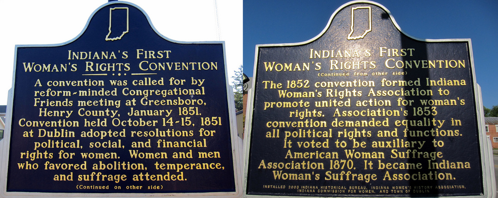 The sign has been on display in Dublin, IN since 2003.